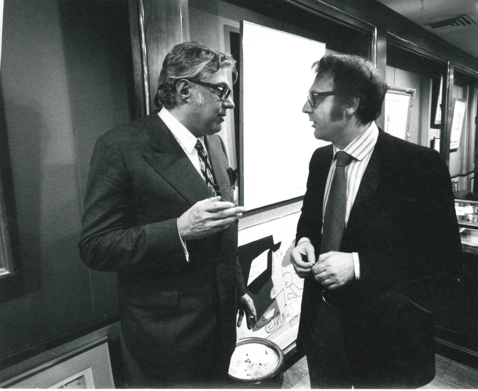 The Italian writers Alberto Bevilacqua and Luigi Silori in an artistic exhibition in Rome, Italy, 1978